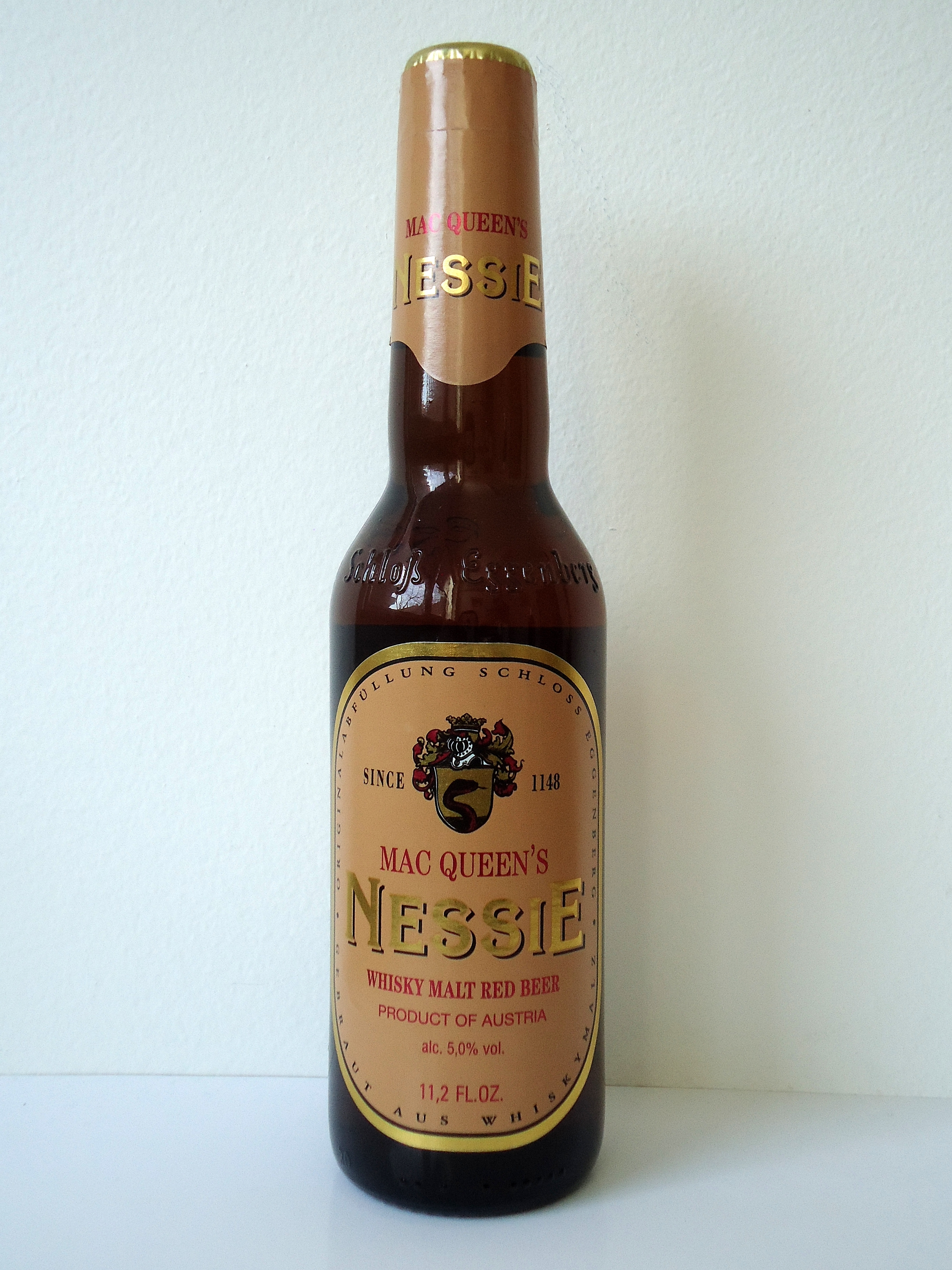 Schloss Eggenberg Nessie